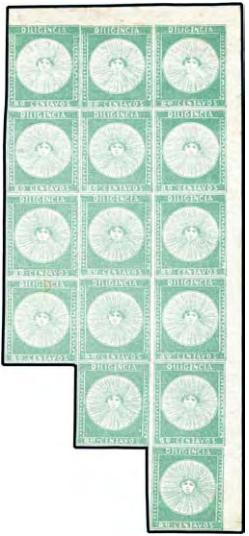 Uruguay, 80c green corner block of 15 of the 1856 issue.